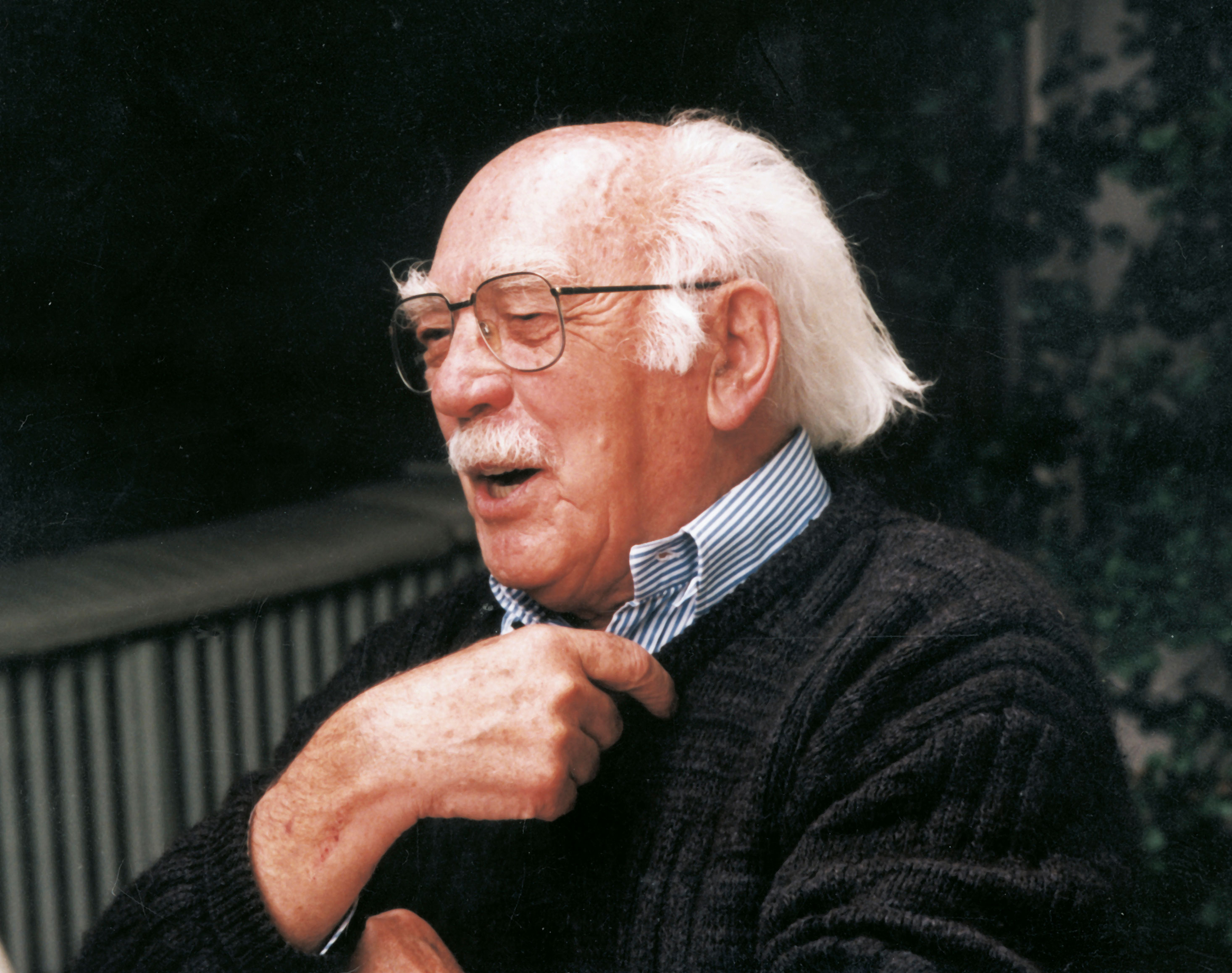 Portrait Erich Radscheit